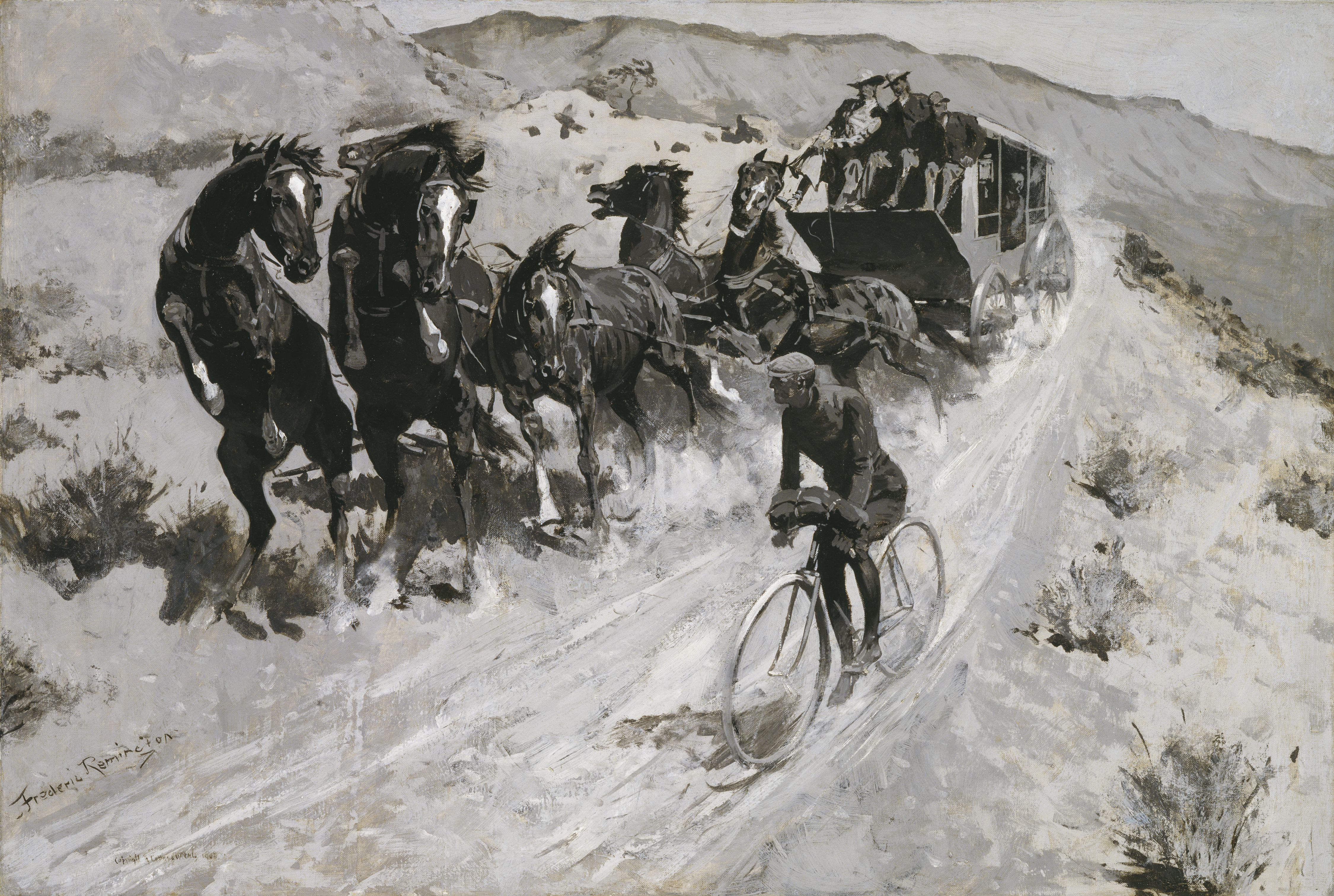 Frederic S. Remington (1861-1909); "The Right of the Road" -- A Hazardous Encounter on a Rocky Mountain Trail; 1900; Oil on canvas; Amon Carter Museum of American Art, Fort Worth, Texas, Amon G. Carter Collection; 1961.246